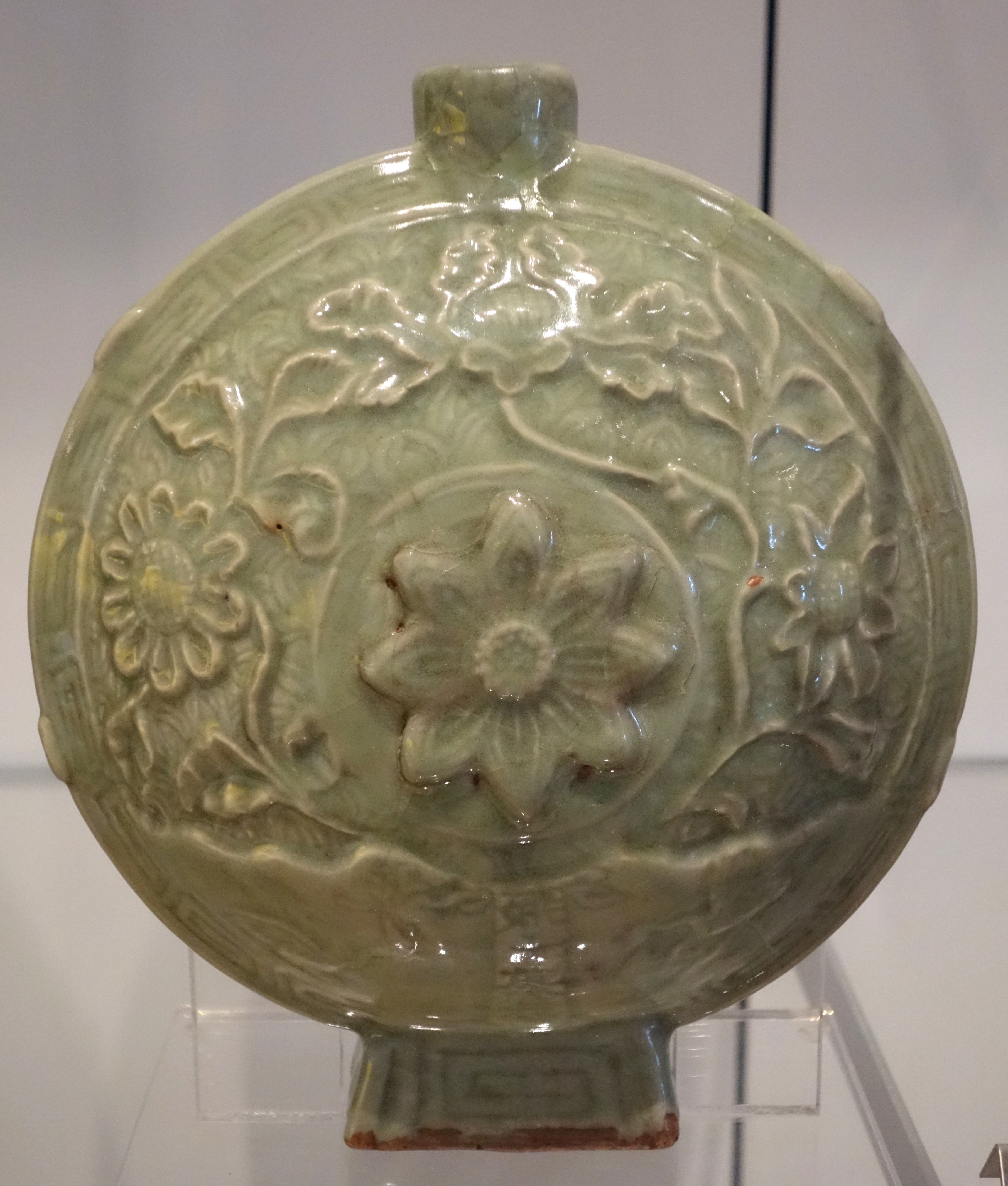 Exhibit in the Royal Ontario Museum, Toronto, Ontario, Canada. This work is old enough so that it is in the public domain.